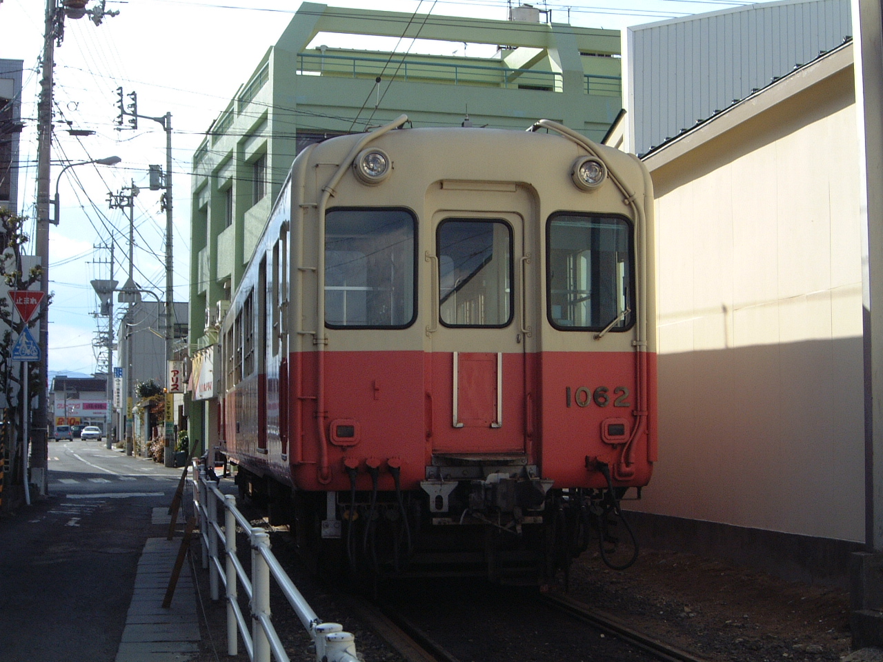 This photograph was taken at Busyouzan station,Japan.